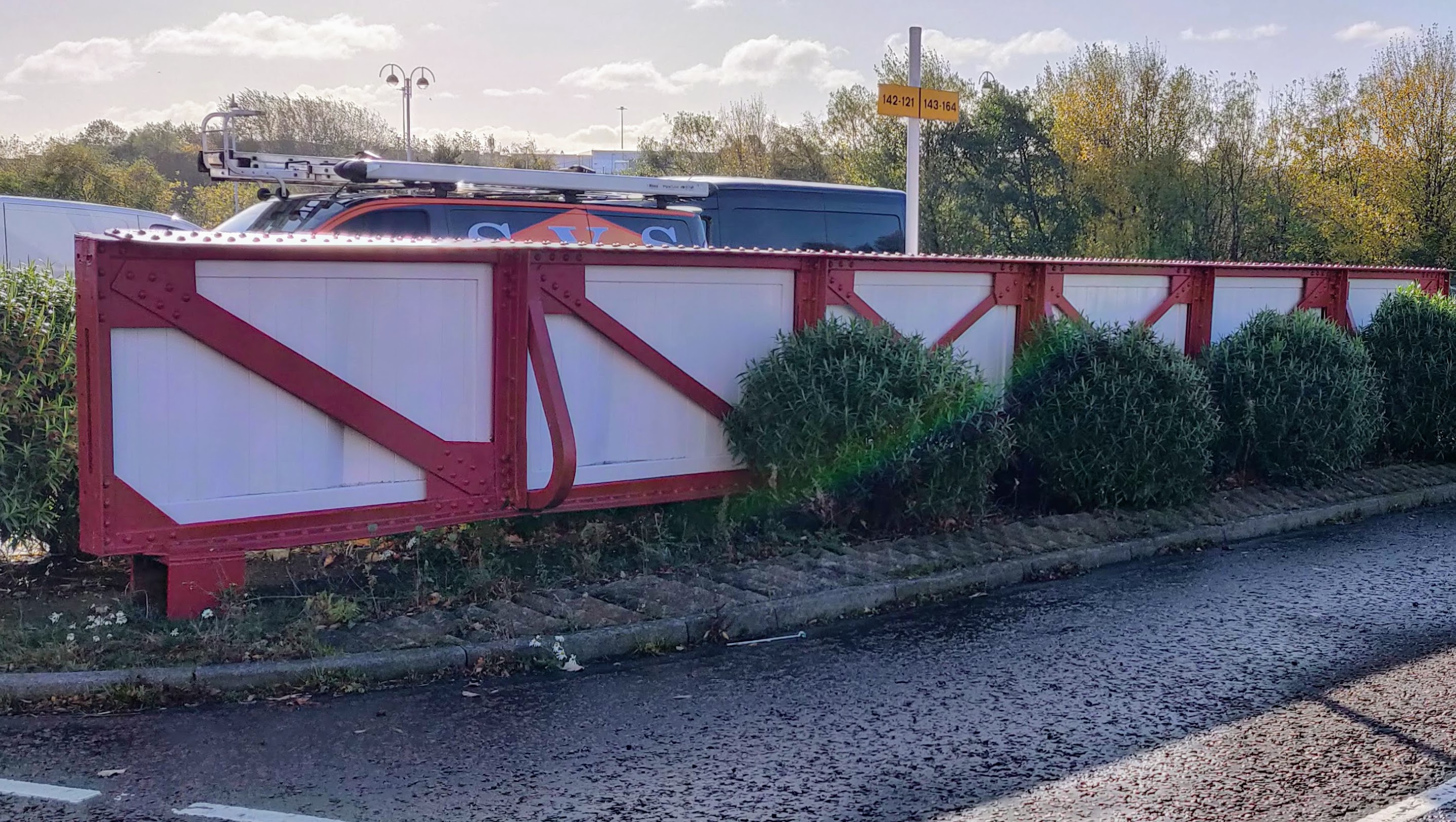 Fragments of Archibald Leitch's criss-cross lattice work, taken from the Main Stand at Roker Park and used within the car park at the Stadium of Light